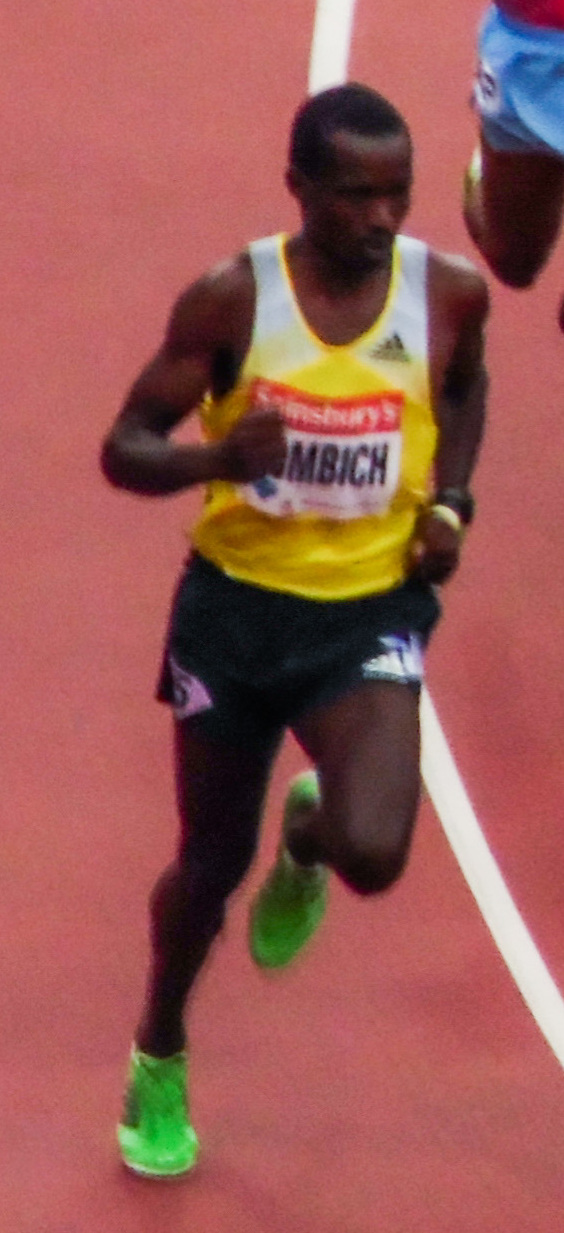 Ismael Kombich at Sainsbury's Anniversary Games